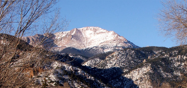 Photograph taken by my friend Brian (~Reactor5). Used with explicit permission from the photographer, and source located at